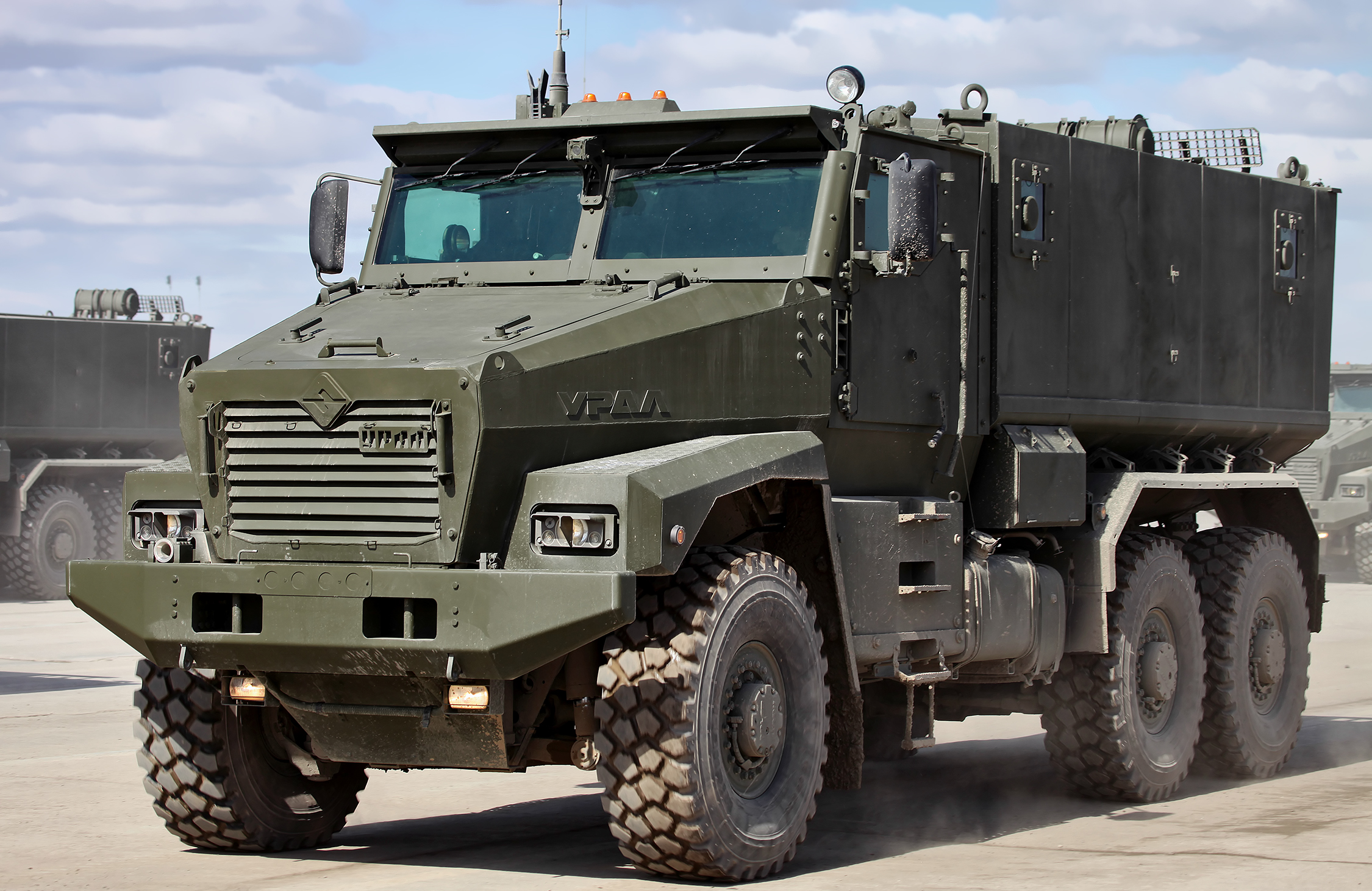 Typhoon-U MRAP vechicle (during the first open rehearsal in Alabino)